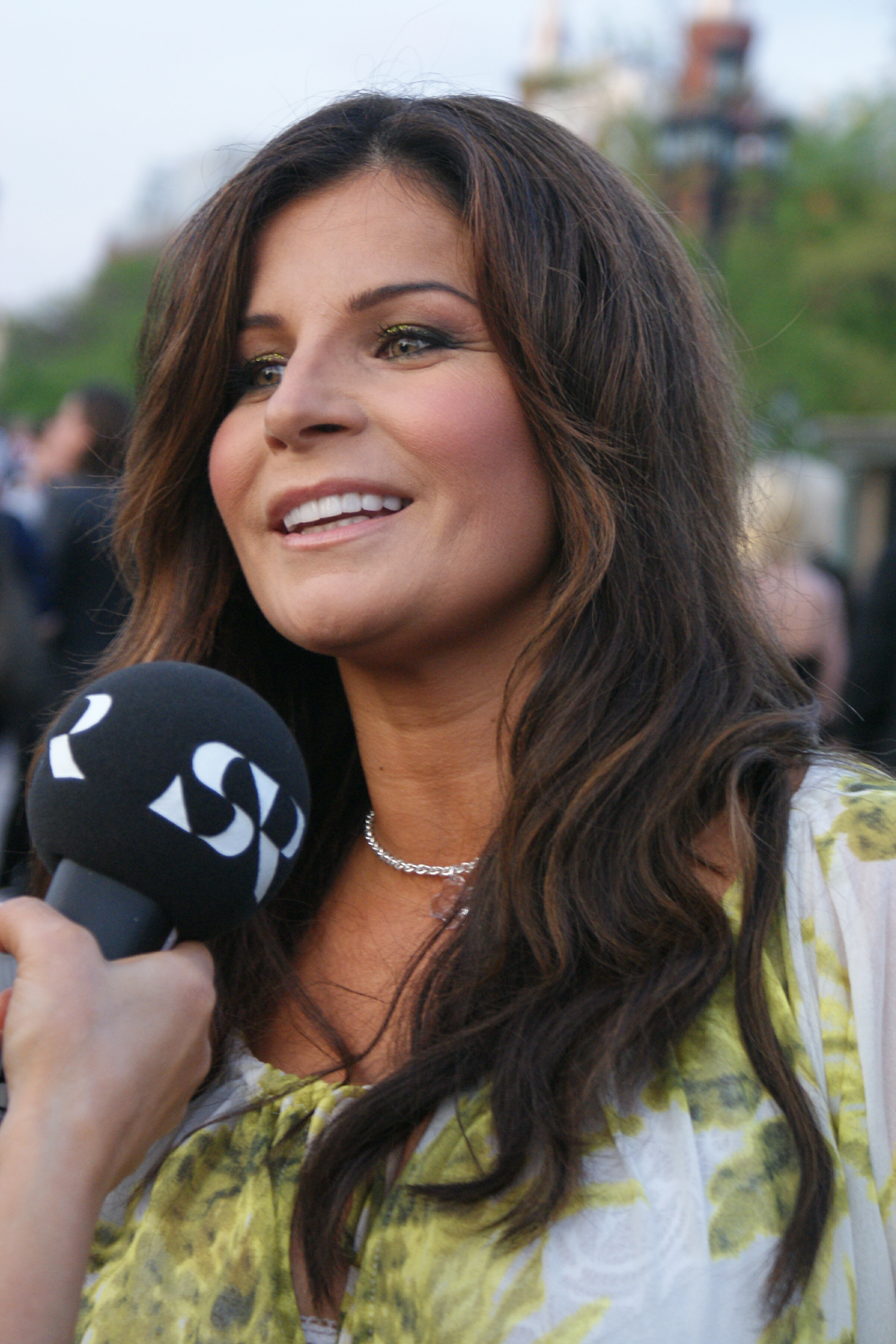 Carola in Moscow, 2009